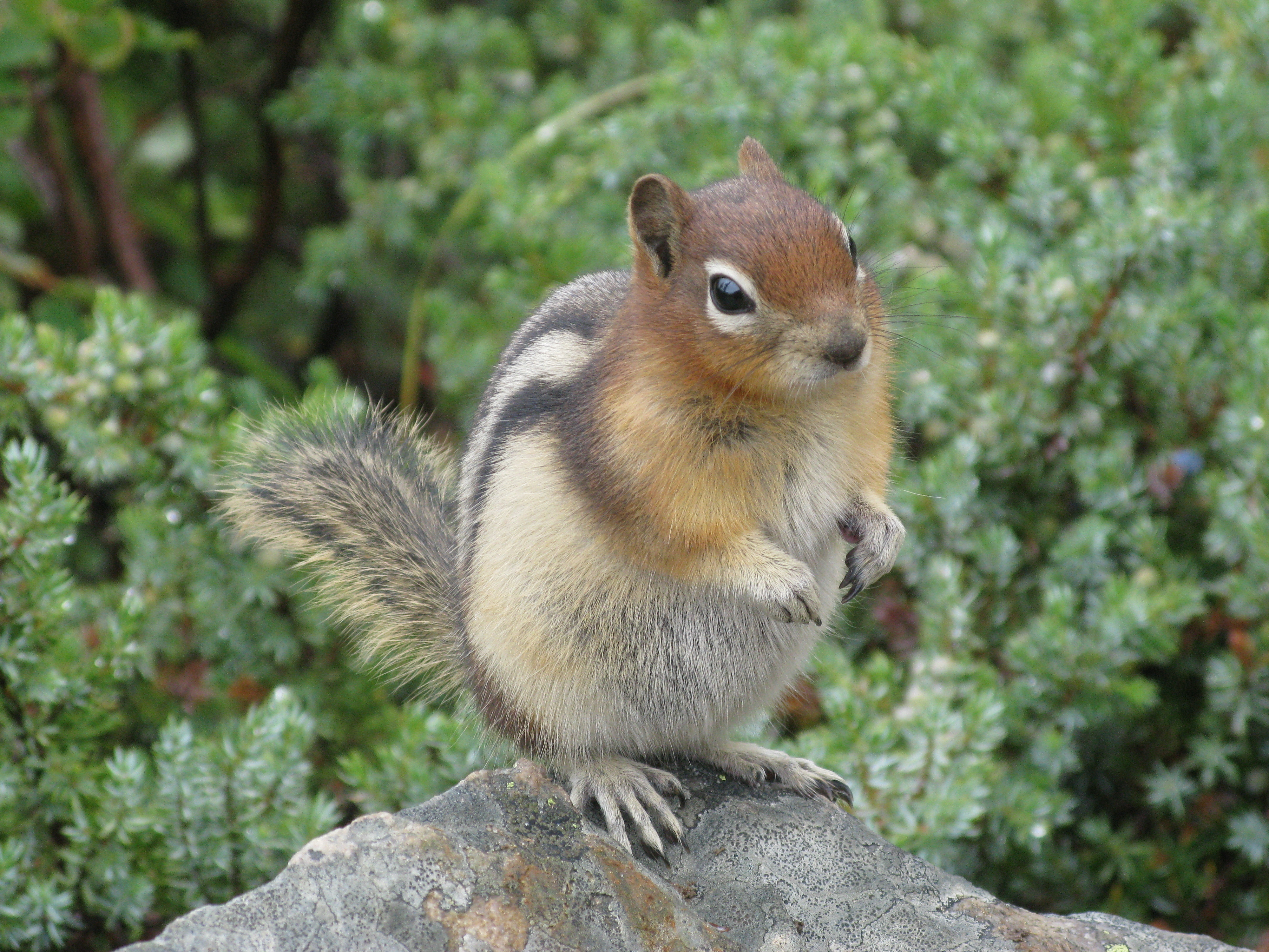 golden-mantled ground squirrel